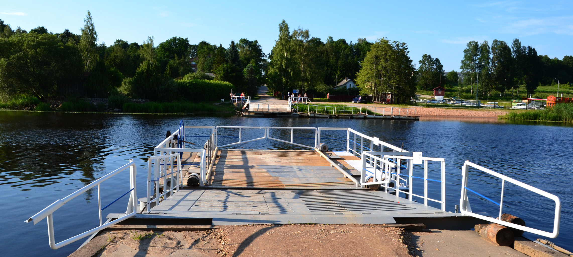 Kavastu, Tartu County, Estonia